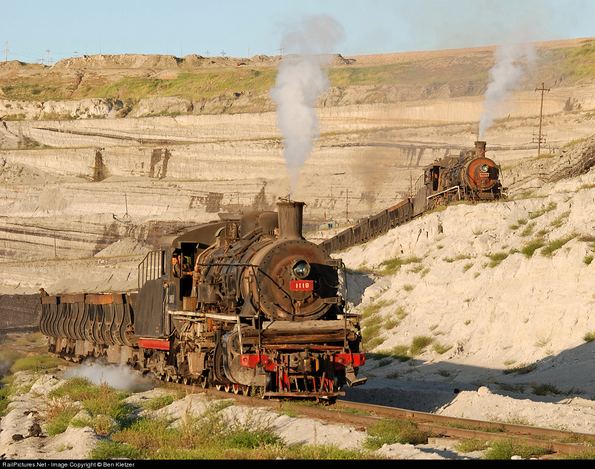 At the bottom of the Opencast Pit coal mine in Jalainuer, SY 1119 leads an empty coal train to be loaded, while SY 1285 passes on the switchback above. Jalainuer was one of the two coal mines returned to China as part of the handover of the Chinese Changchun Railway.